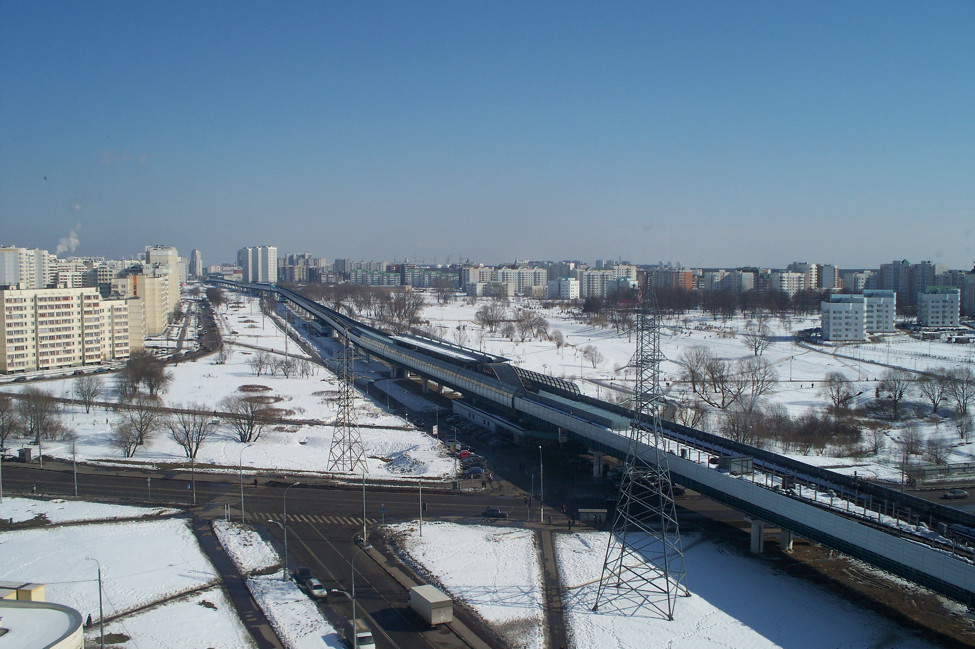 Russia, Moscow, Butovo. A look at a line of the light underground from the house number 8 in the Kadyrov street